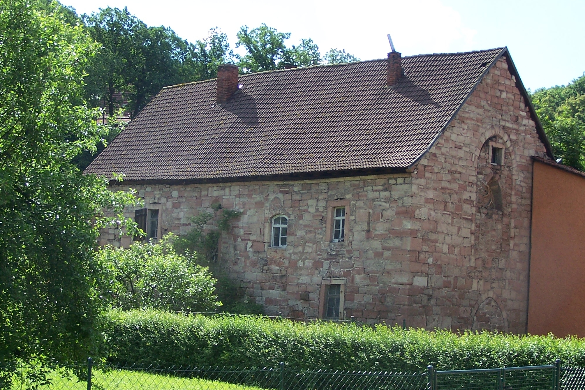 Former convent church of Allendorf Convent (Kloster Allendorf) (rebuilt, today residential building), Bad Salzungen, Thuringia, Germany